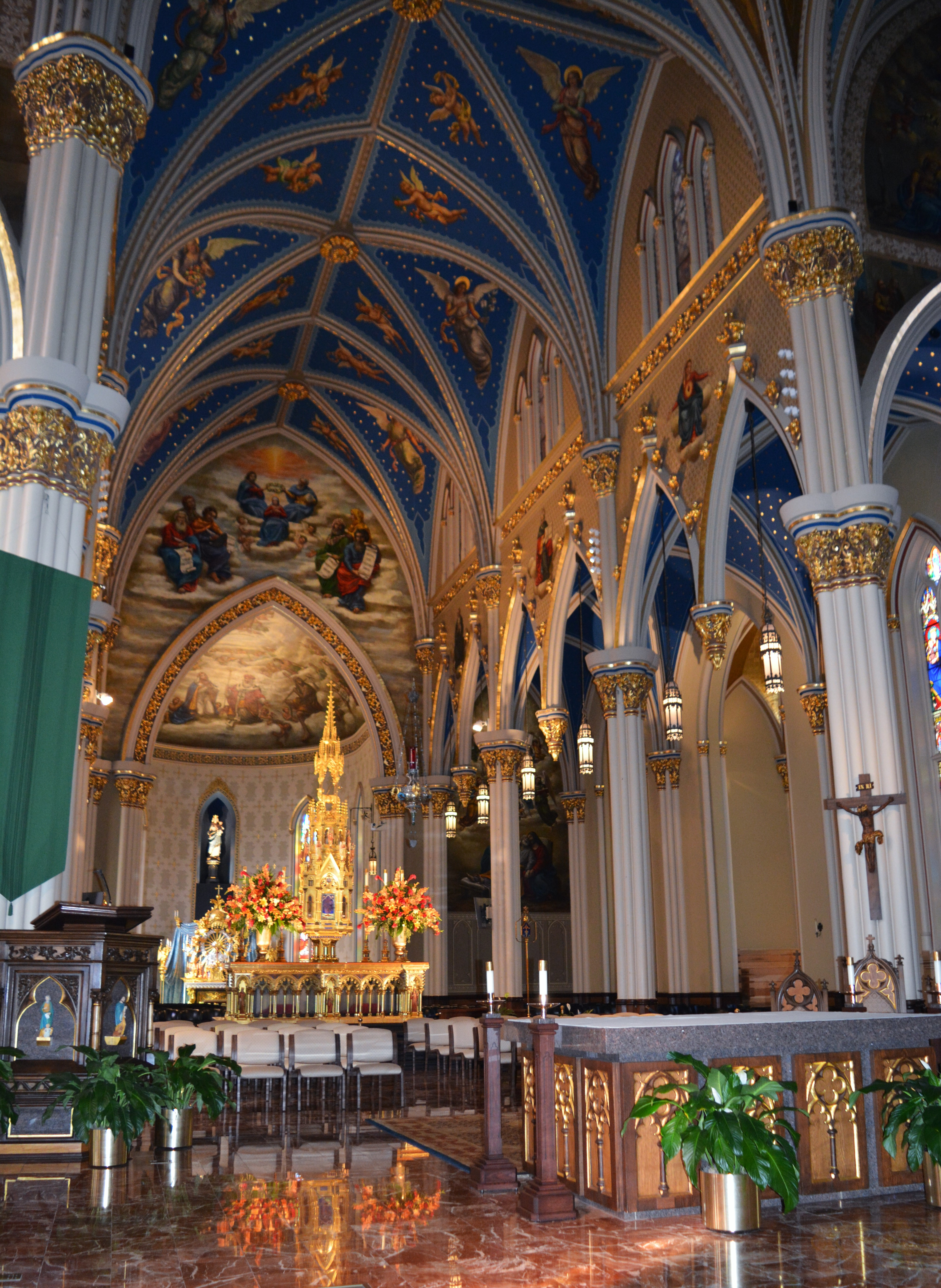 Campus of the University of Notre Dame